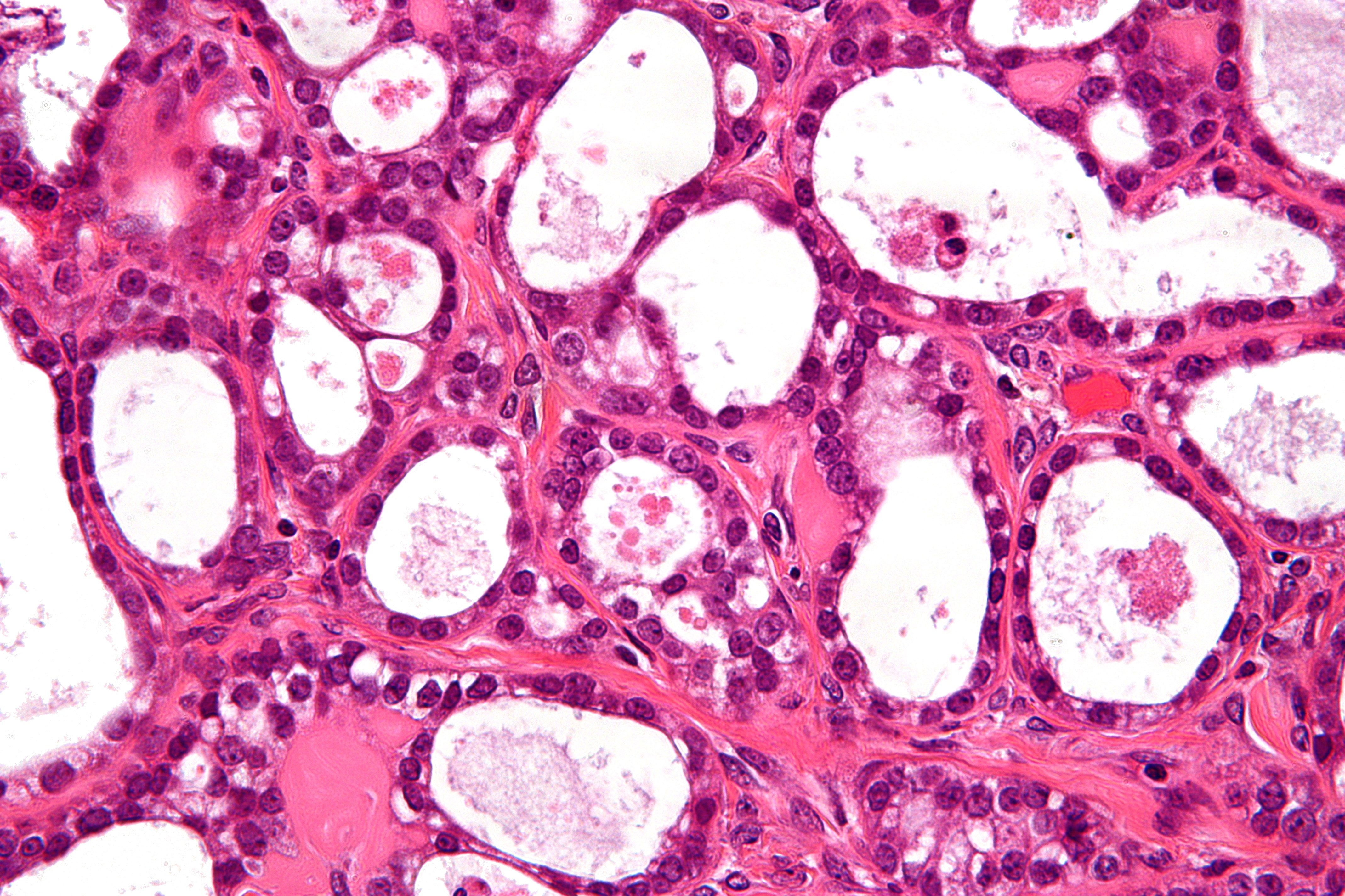 Very high magnification micrograph of an ovarian clear cell carcinoma, also clear cell adenocarcinoma of the ovary. H&E stain. The images show, focally, the characteristic clear cells with prominent nucleoli and the typical hyaline globules. Related images Low mag. Intermed. mag. High mag. Very high mag. Intermed. mag. High mag. Very high mag. Very high mag. (cropped)